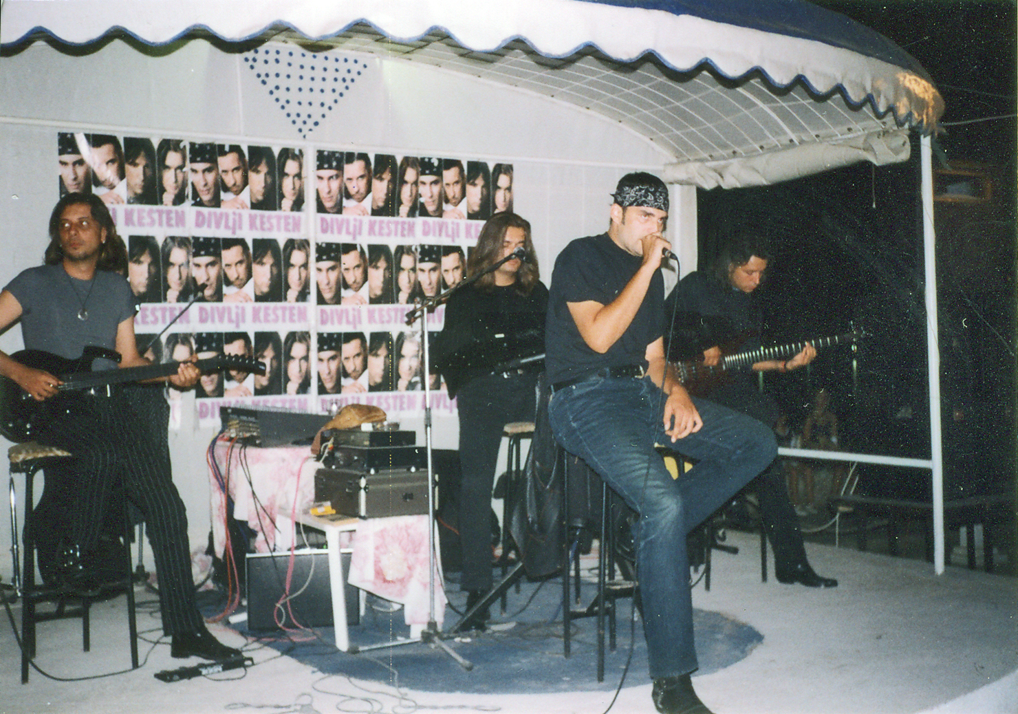 Serbian pop band "Divlji kestent" (Horse-chestnut) at a concert in Nis